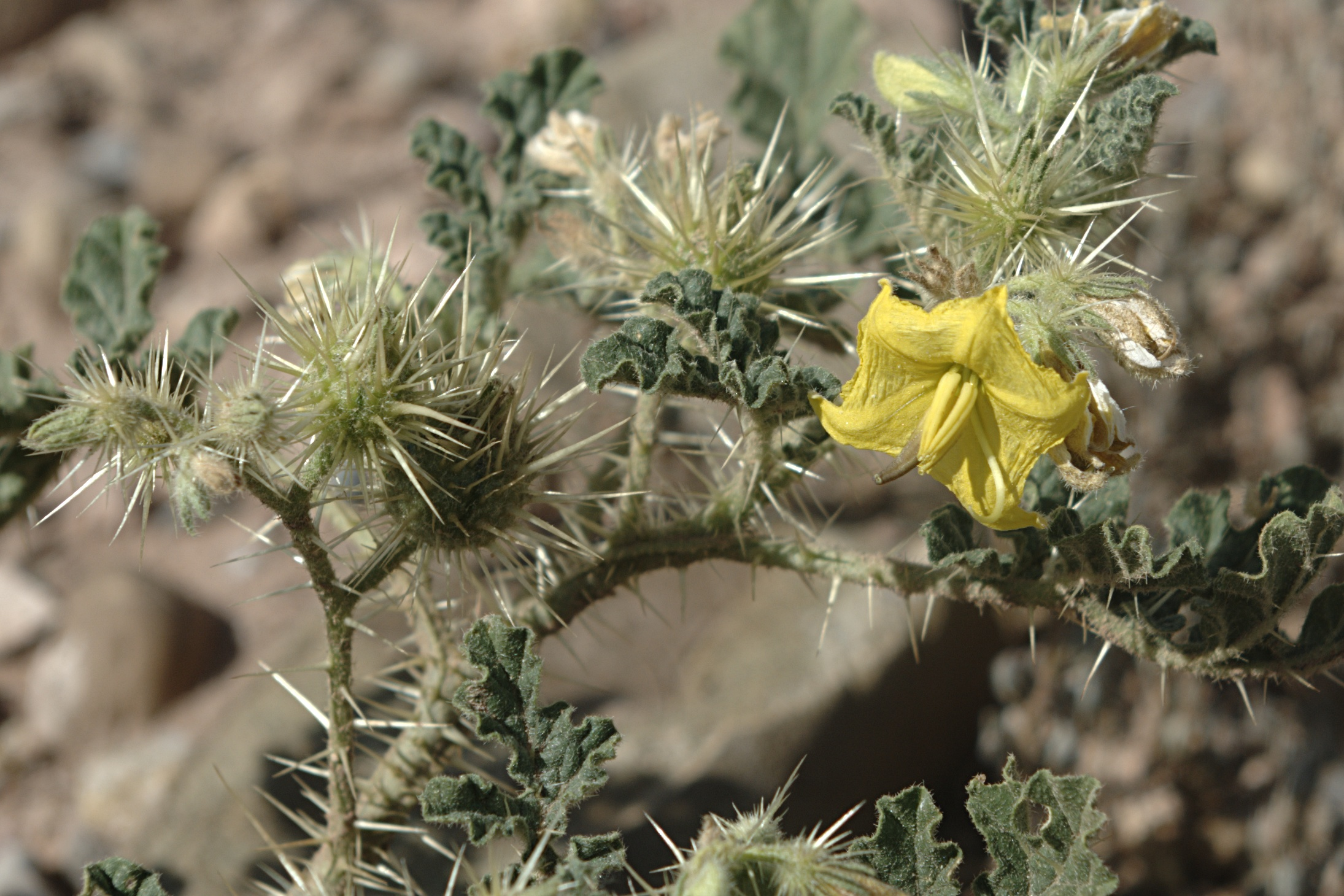 Flower and burs of buffalo bur, Solanum rostratum, Conchas Dam State Park, New Mexico.